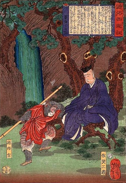 A scene of Journey to the West. Sun Wukong and Xuanzang